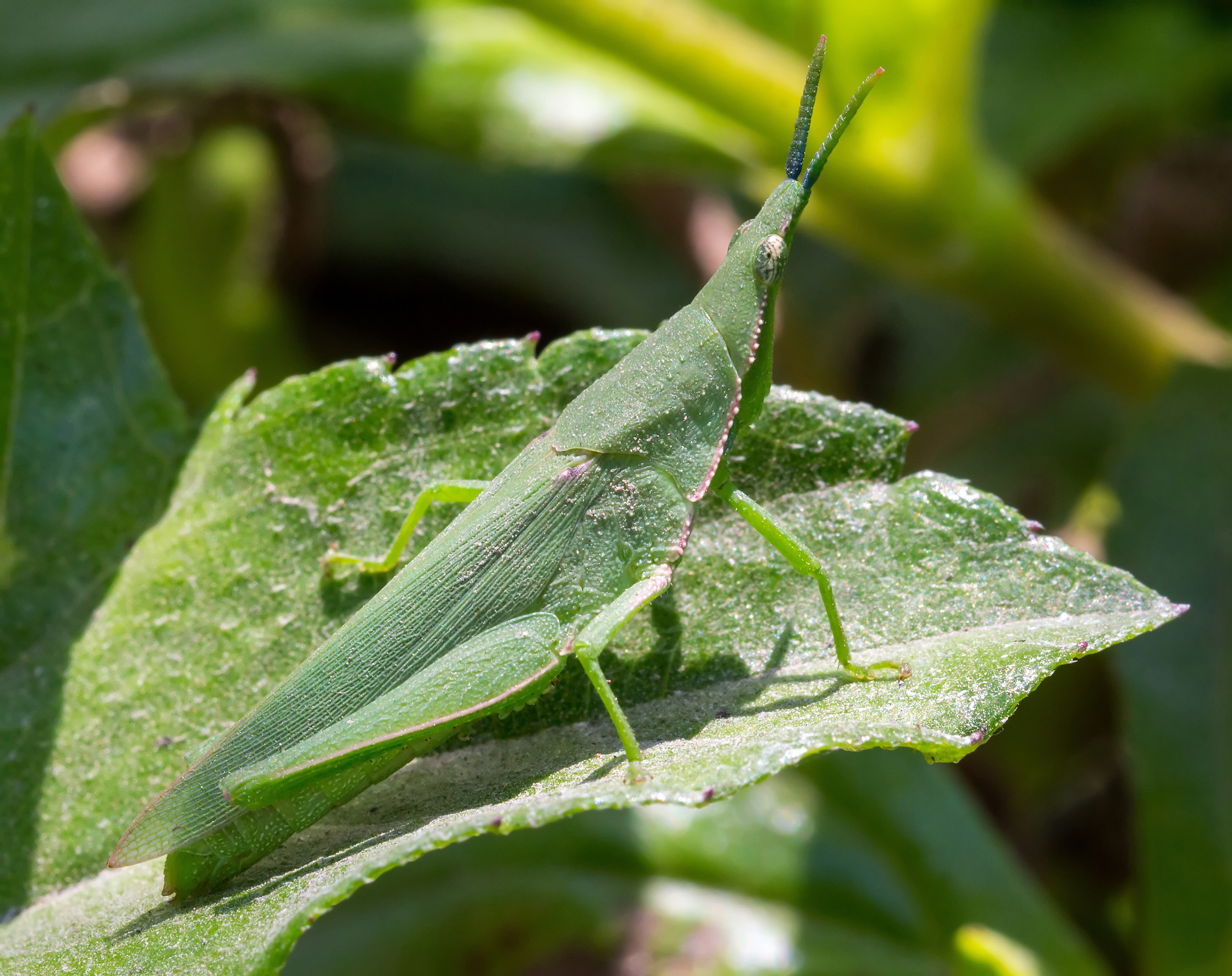 Atractomorpha crenulata at Sambisari Temple Complex, 2014-09-28. Identified through The Orthopterists' Society on Facebook.